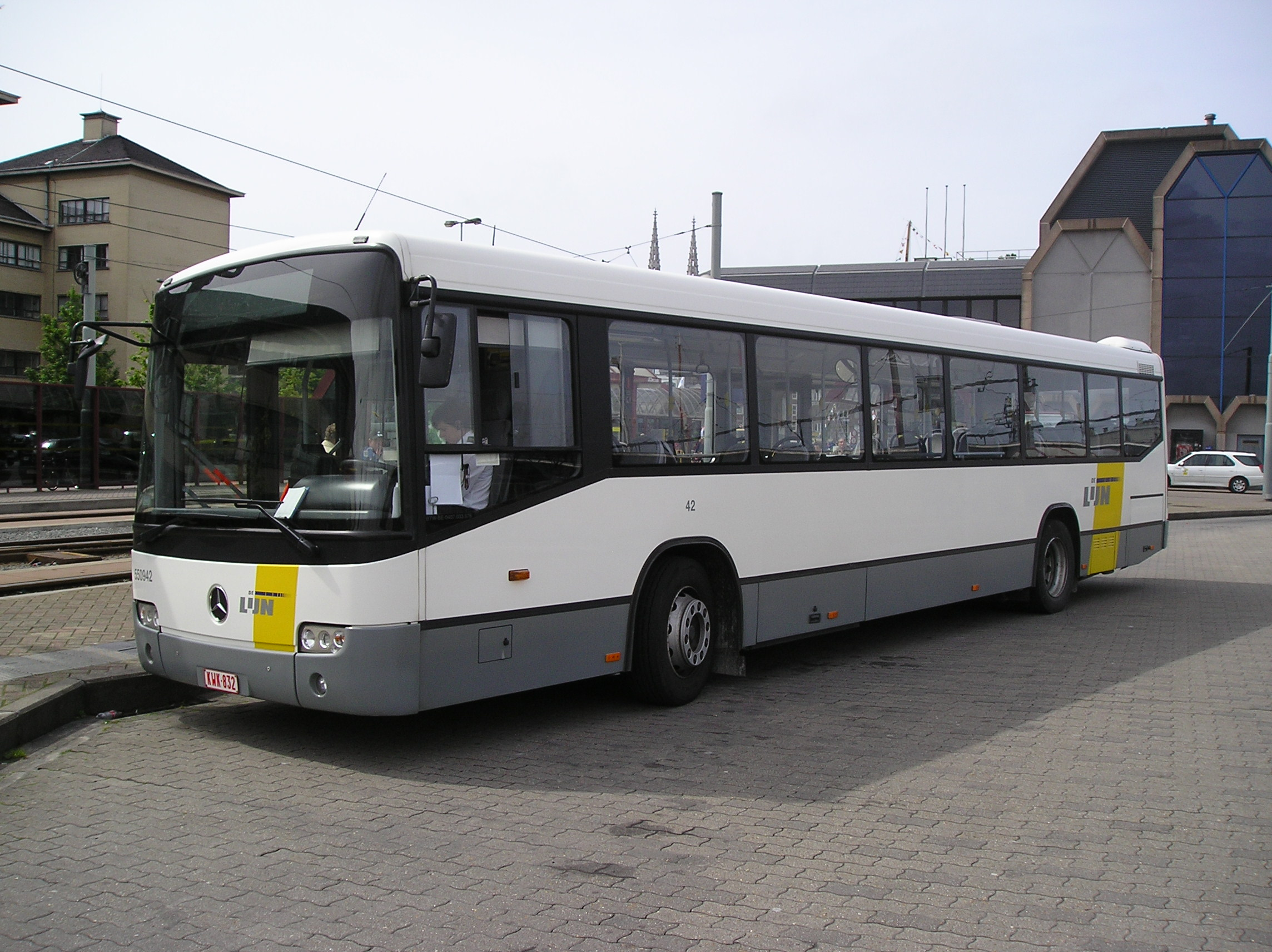 Mercedes-Benz bus of De Lijn in Ostend, Belgium, near the tram- and bus station and nusdepot.